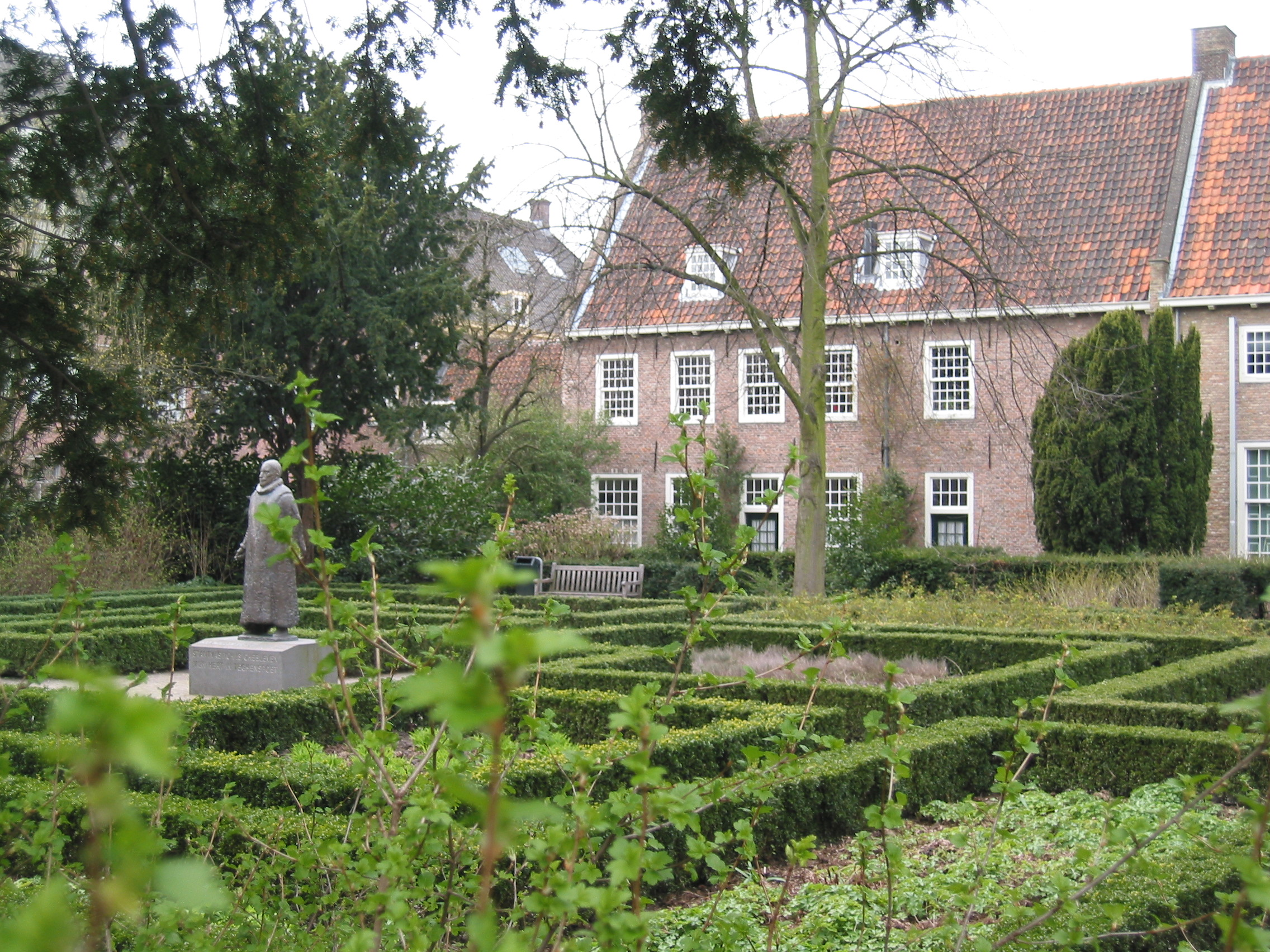 The garden of the Prinsenhof with statue Willem de Zwijger (2003) by Auke Hettema